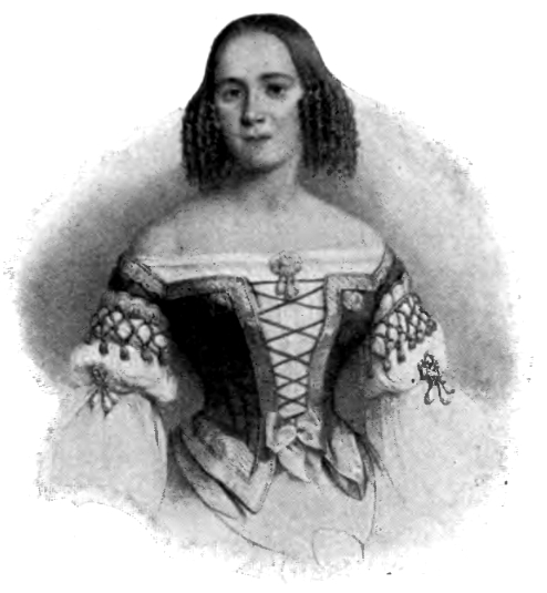 Matilda Gelhaar. After an oil painting by Vilhelm Wohlfahrt, litographed by J. Gardon. Image from Nils Personne: Svenska Teatern VIII (1927).